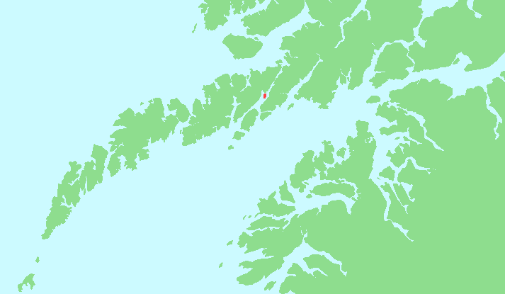 Locator map of Ulvøya, Nordland, Norway